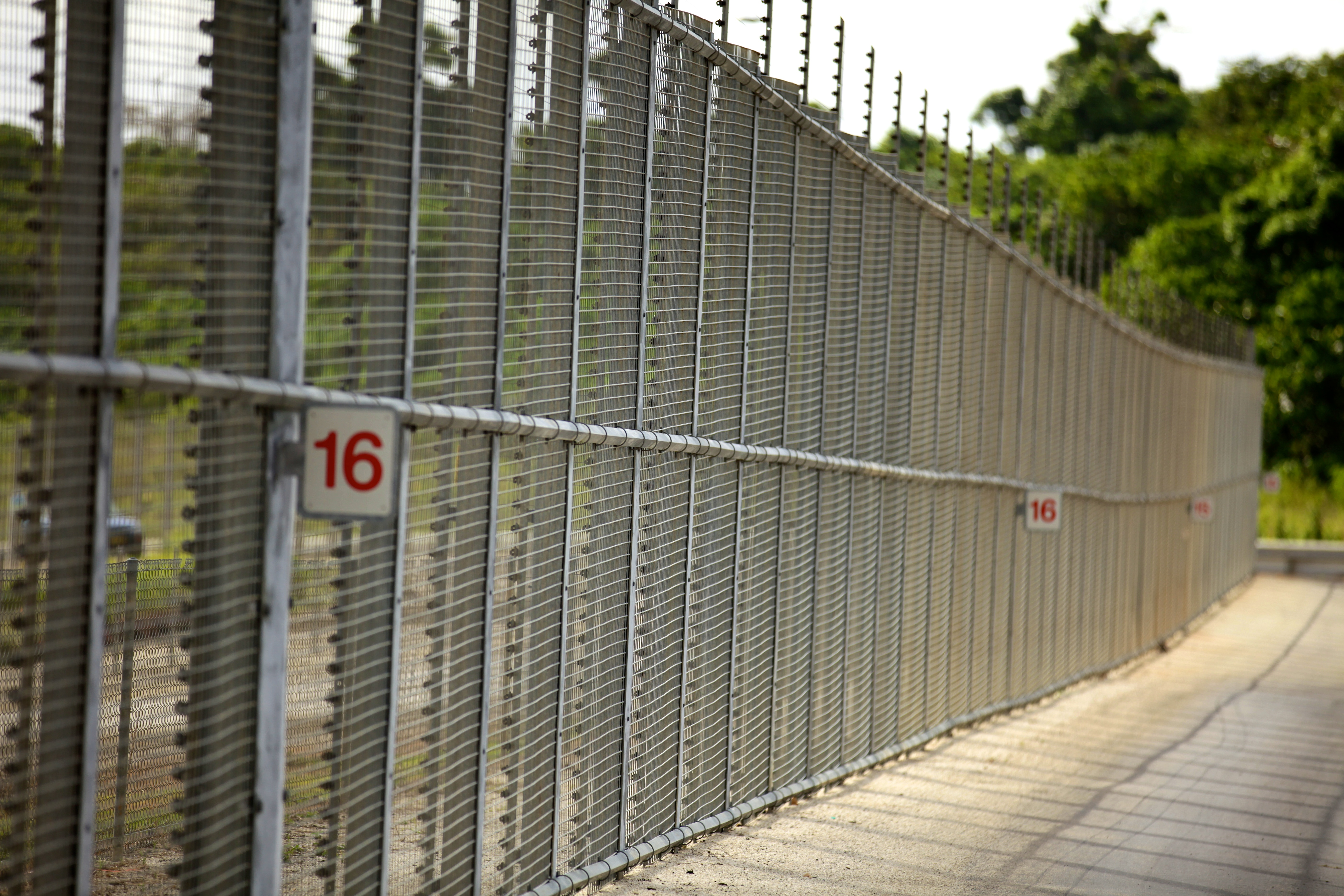 Christmas Island Immigration Detention Centre perimeter fence.